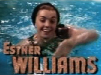 Cropped screenshot of Esther Williams from the trailer for the film Million Dollar Mermaid.